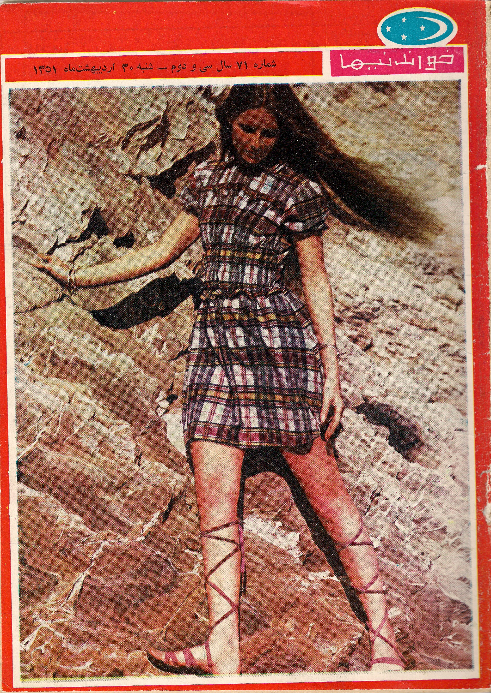 Khandaniha Magazine's front page, published on Saturday, Wednesday, May 10, 1972